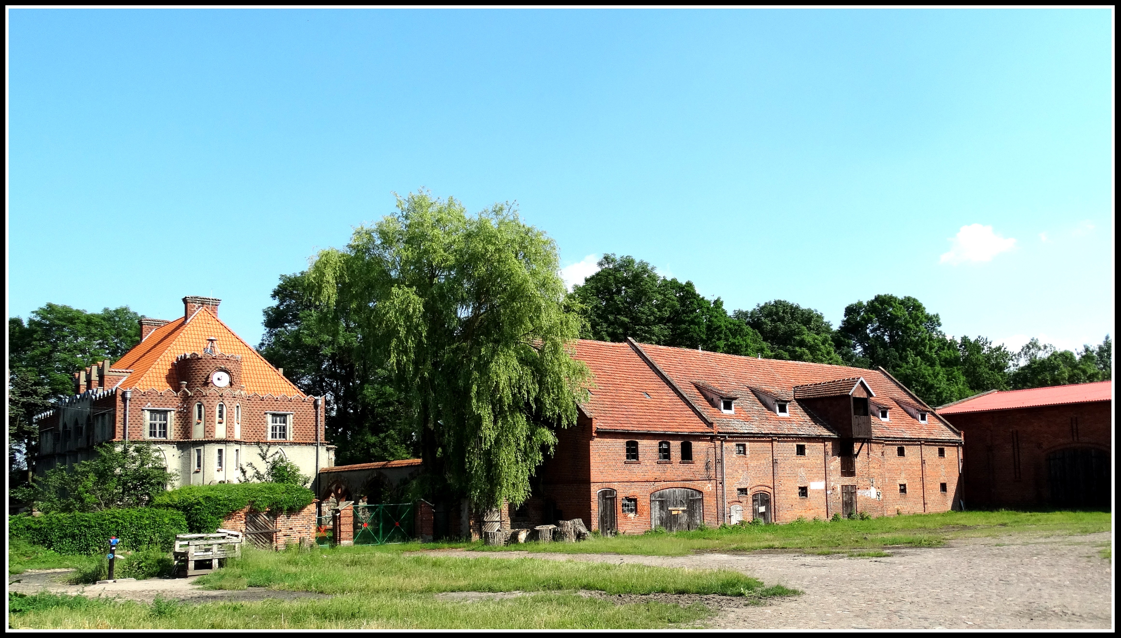 Czechnów, homestead from the early twentieth century. / Gm. Bojanowo / pow. rawicki / province. Greater